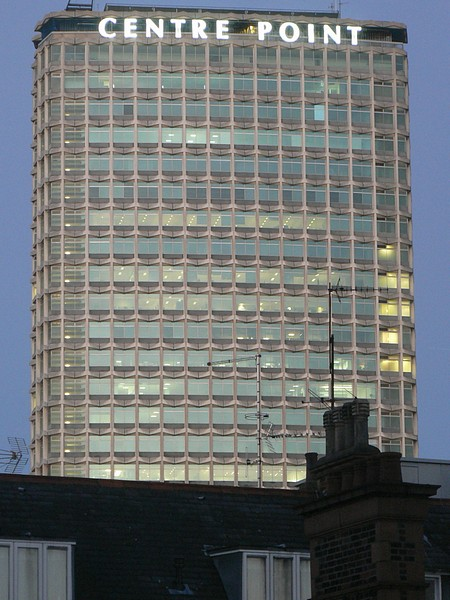 Centre Point, early morning Pictured at 6:15 on a late October morning, the building stands out against the sky. Pictured from a room in the Travelodge Hotel in High Holborn, looking over buildings in Grape Street.